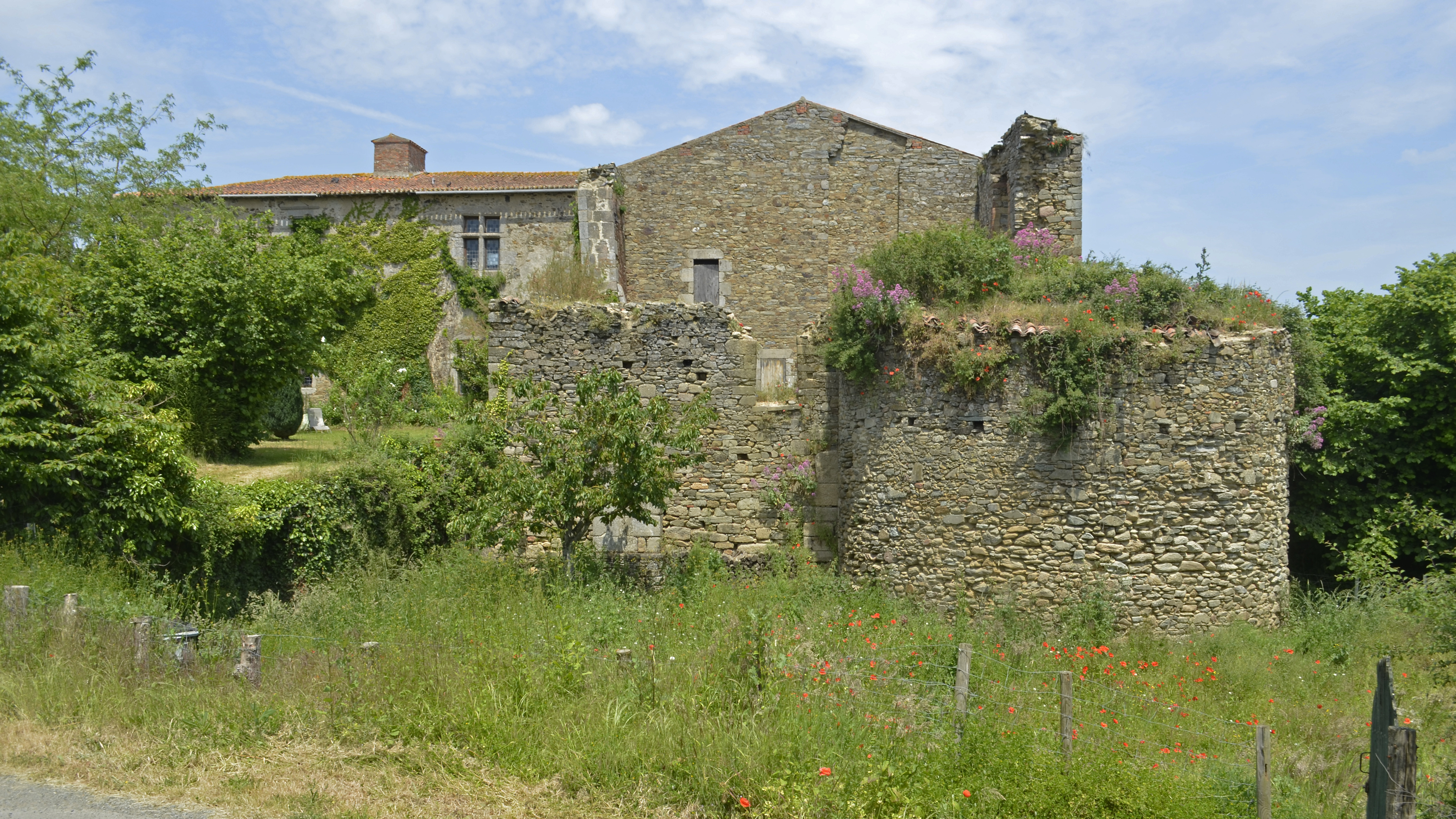 Vendrennes castle - Vendée, France